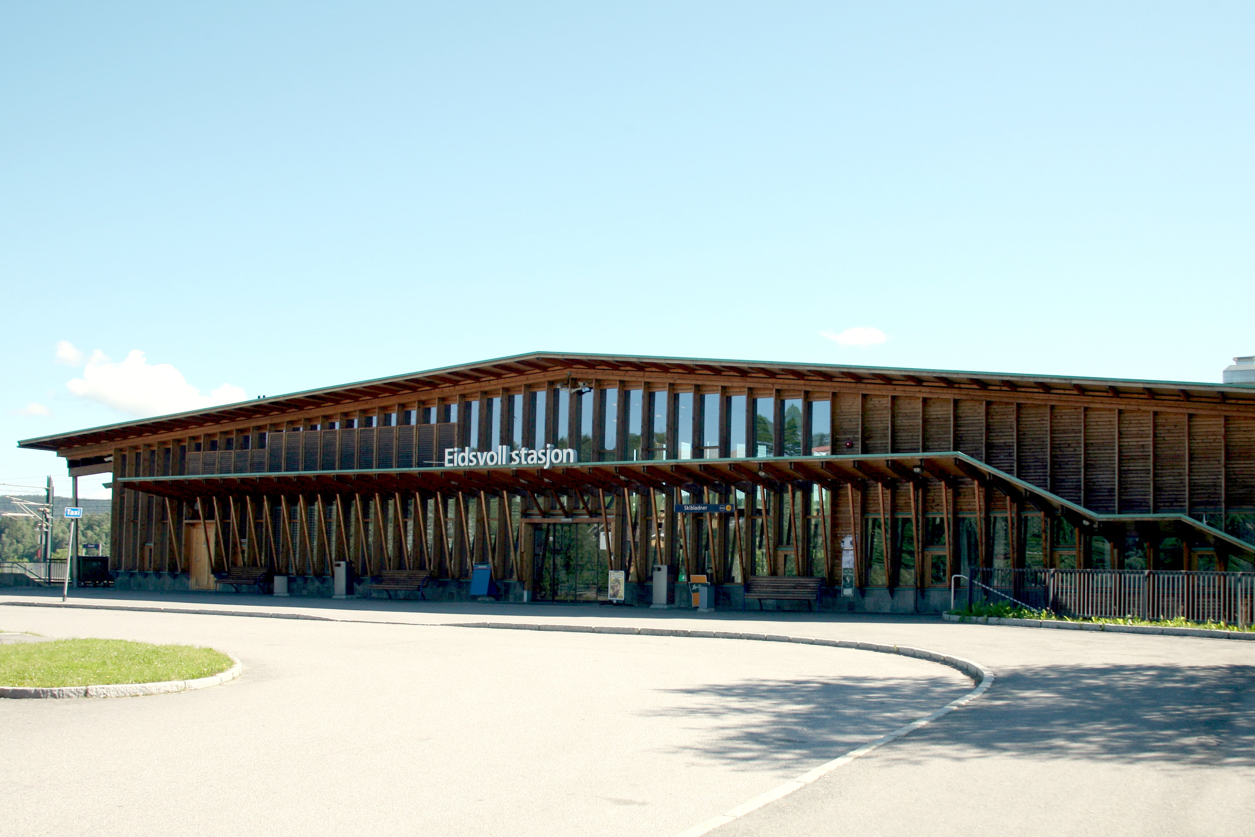 Picture of Eidsvoll Railway Station (Norway)